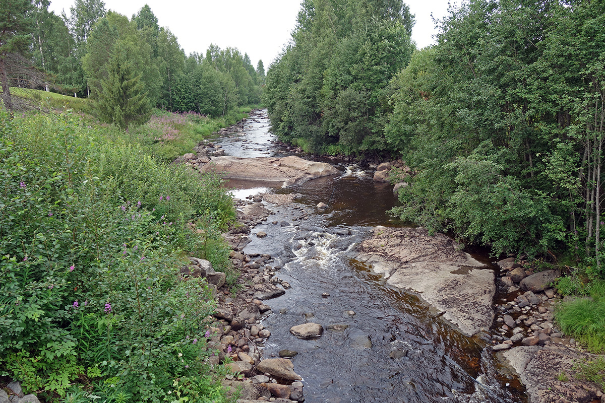 River Bureälven at Brattfors, Västerbotten, Sweden.